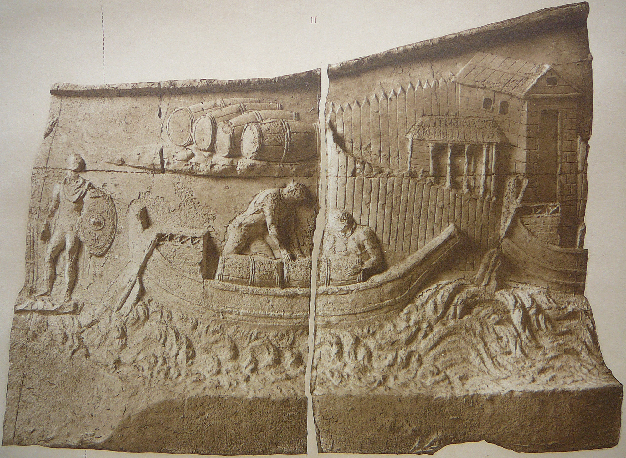 River-traffic on the Danube frontier (scene II)